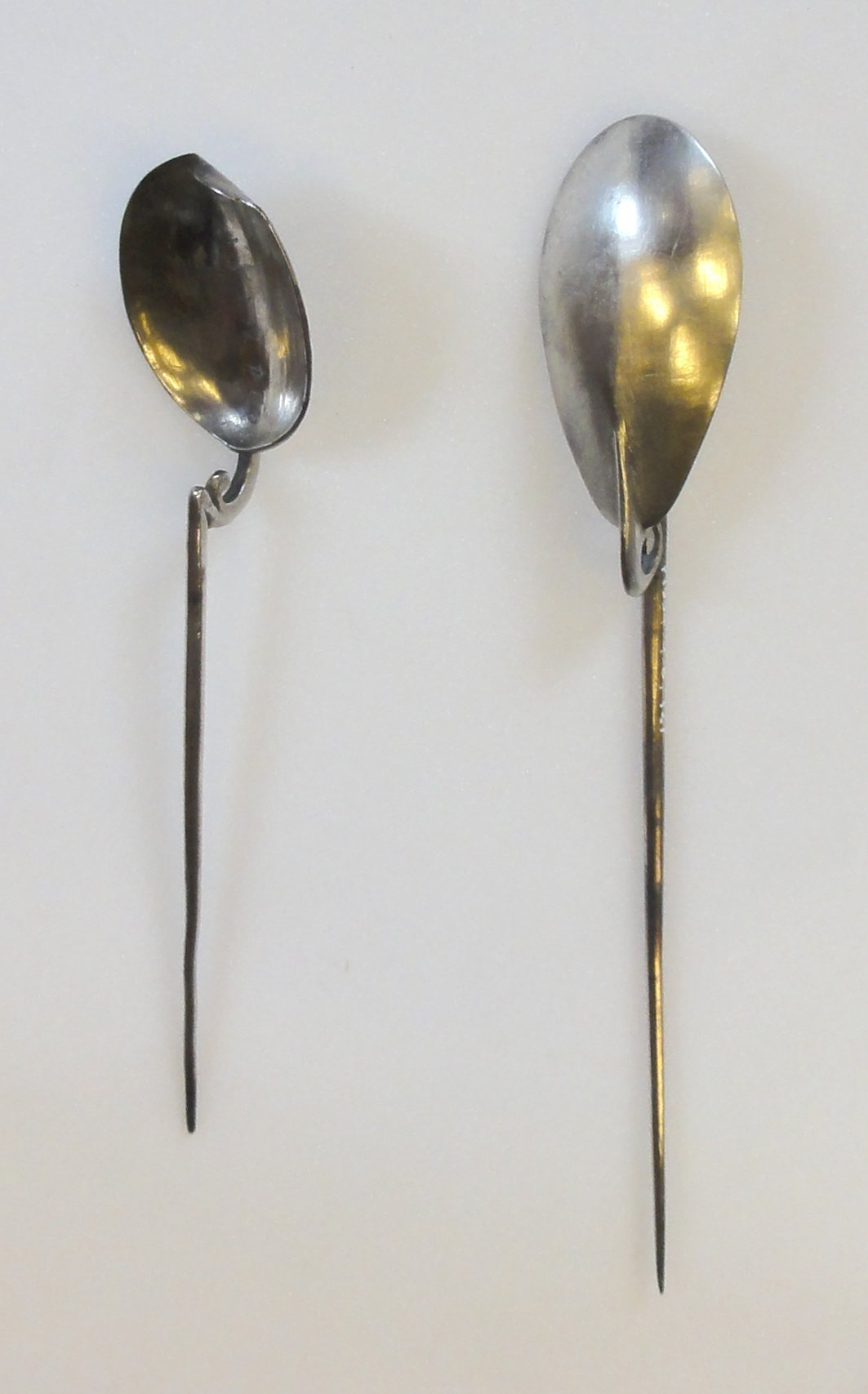 Two spoons showing front and back. A Cochlearium (plural cochlearia) was a small Roman spoon with a long tapering handle. Cochlearia have been found in a number of Roman sites from the 4th and 5th centuries CE, including the Thetford[1] and Hoxne Hoards.